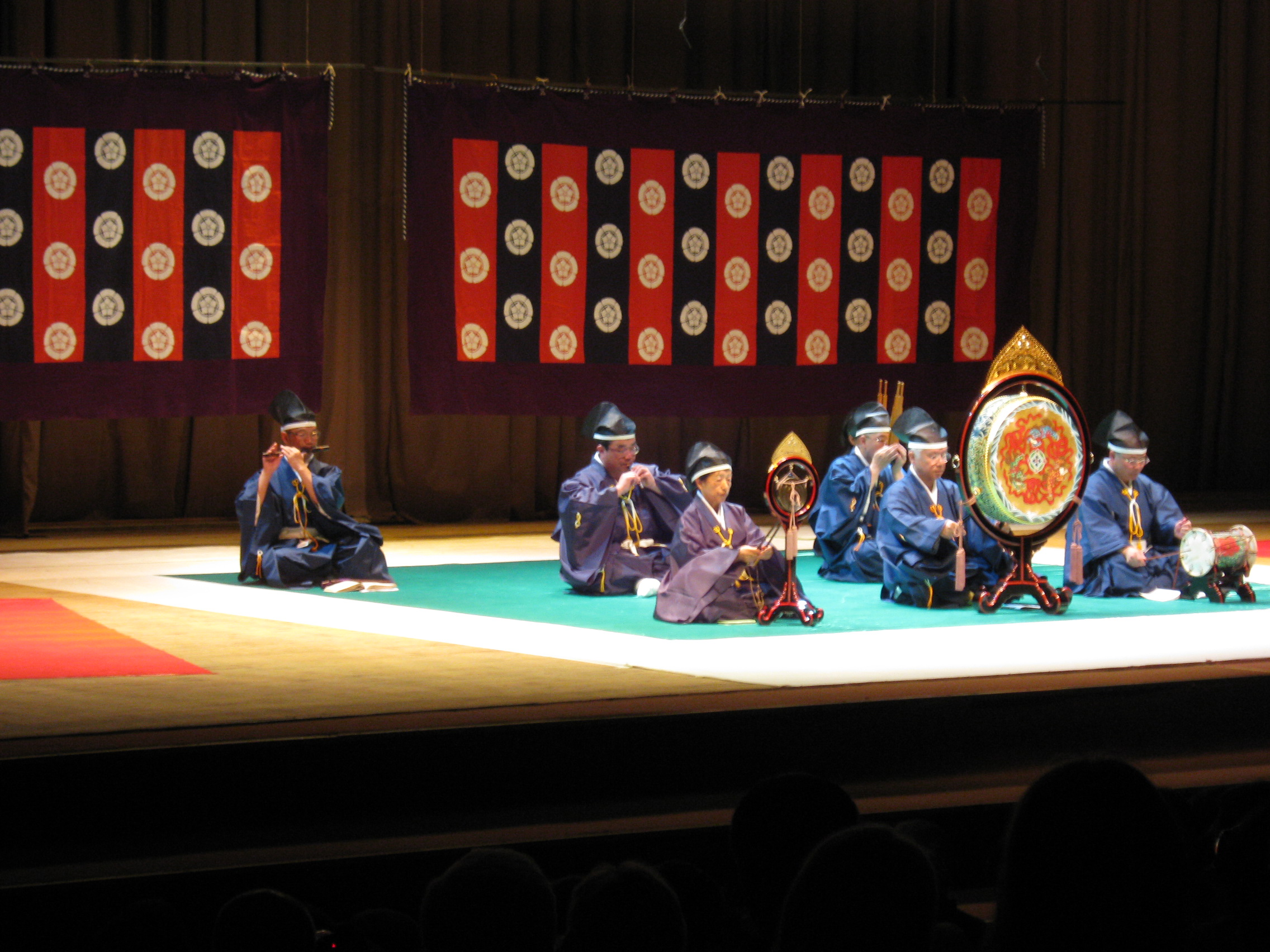 Gagaku concert (Kyiv, 2010)